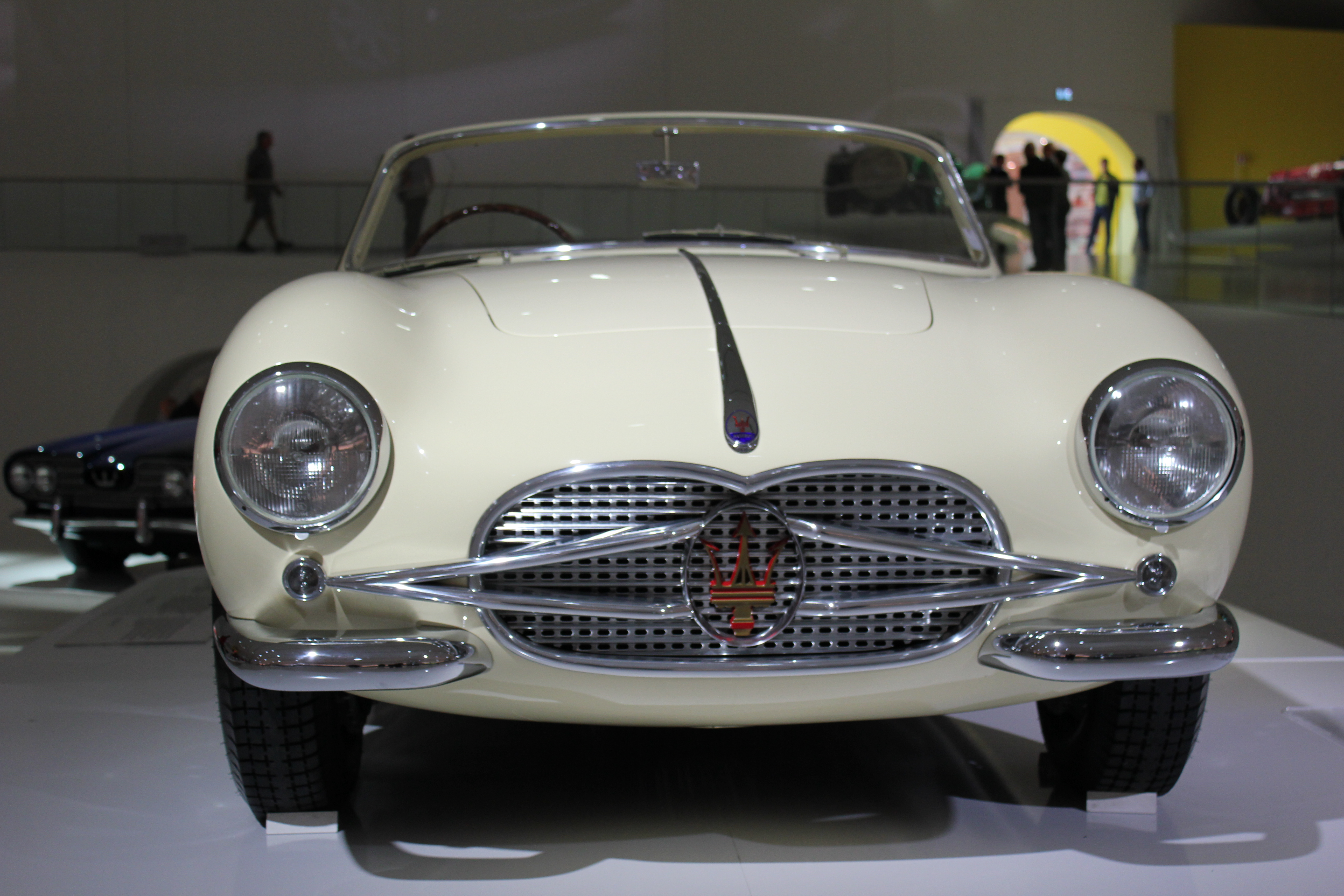 Maserati 150 GT Spyder Fantuzzi. "Maserati 100 - A Century of Pure Italian Luxury Sports Cars" exhibition at the Museo Enzo Ferrari, Modena, Italy.